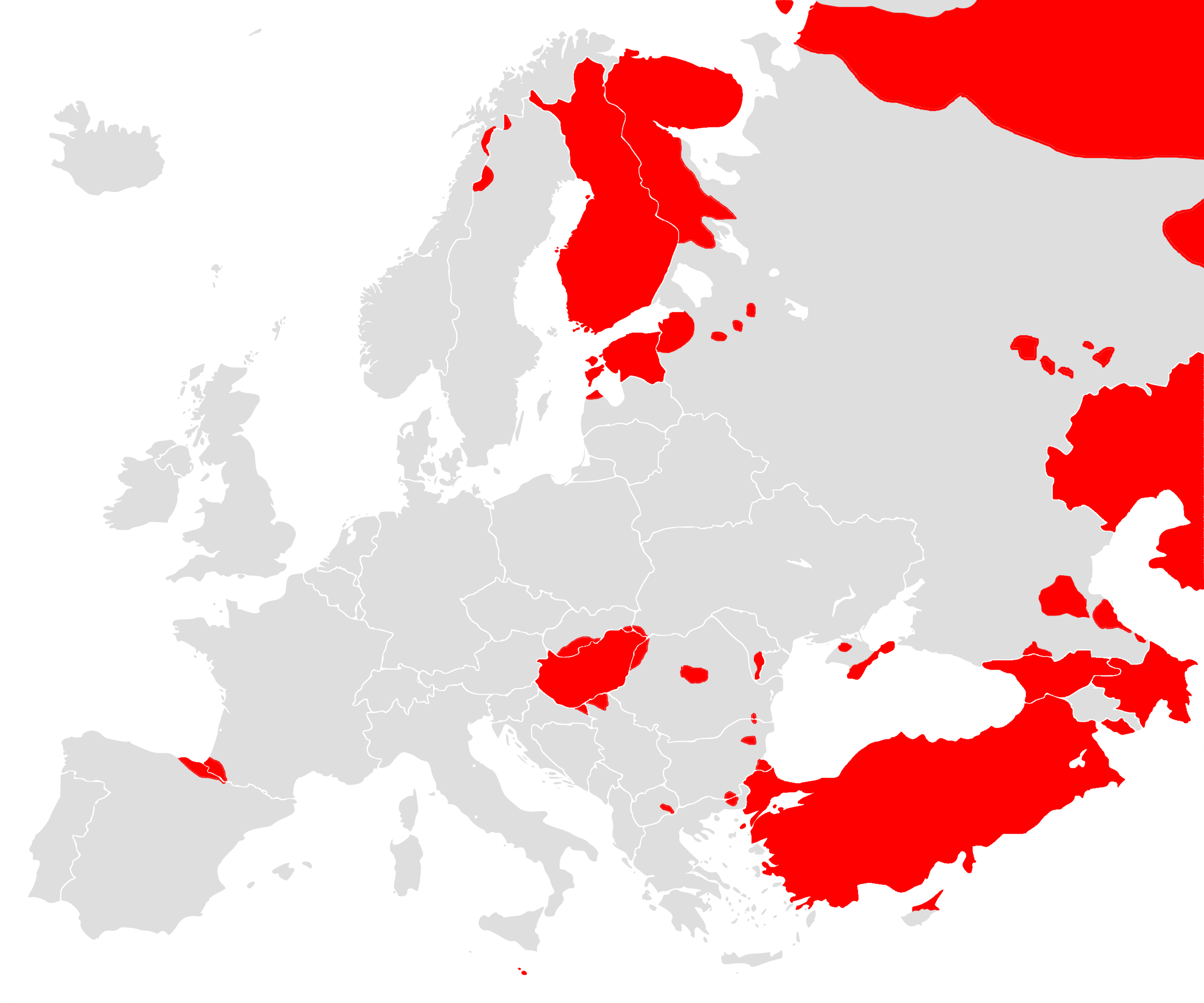 Map of Non-Indo-European languages in Europe.There are four language families: Basque; Finno-Permic languages; Turkic languages; Semitic languages.